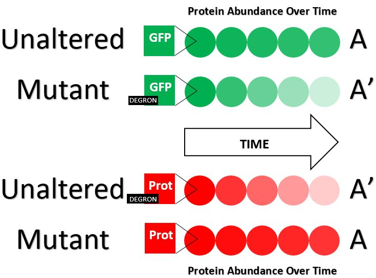 image 1